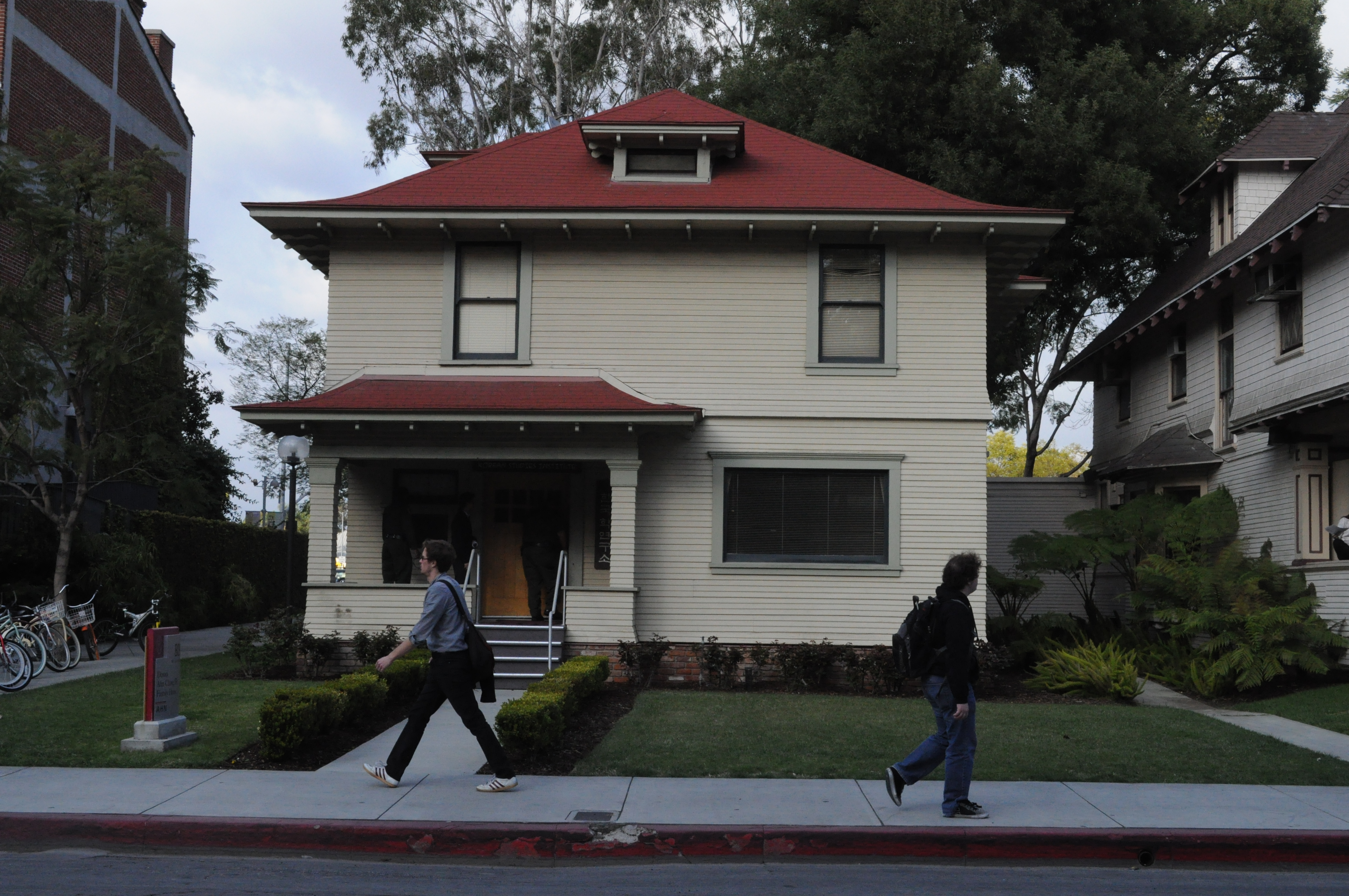 Ahn House, Korean student center, University of Southern California.